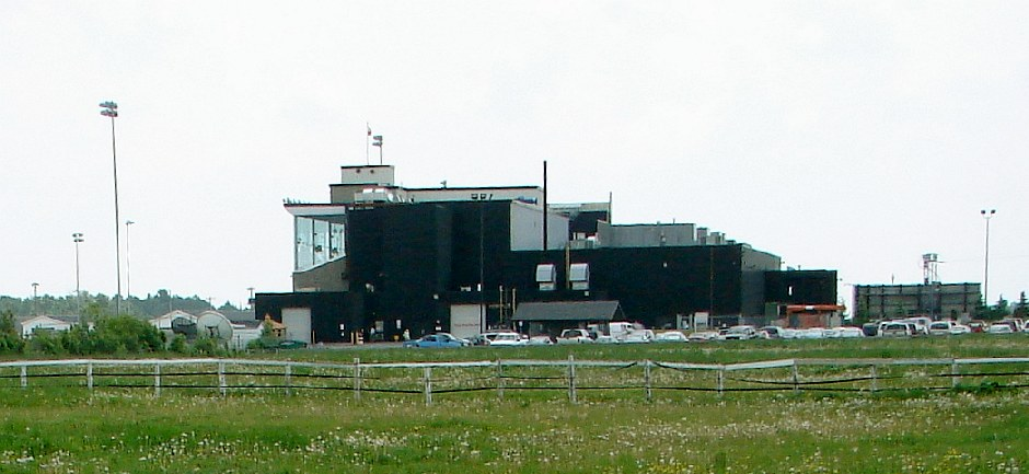 Sudbury Downs racetrack and slots, Greater Sudbury, Ontario, Canada